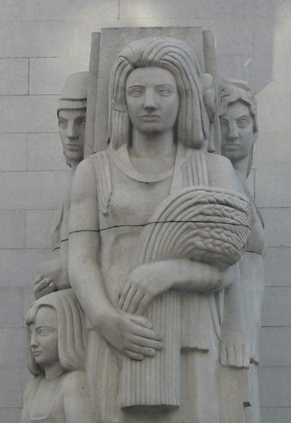 Close-up of the upper section of the stone sculpture entitled "Agriculture" by Ralph Stackpole. "Agriculture" stands at 301 Pine in San Francisco, California.